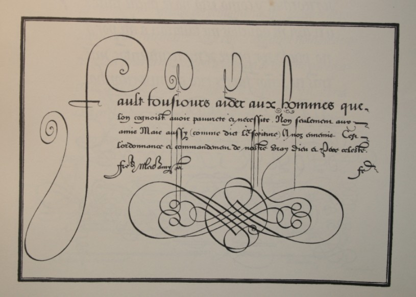 Calligraphy example